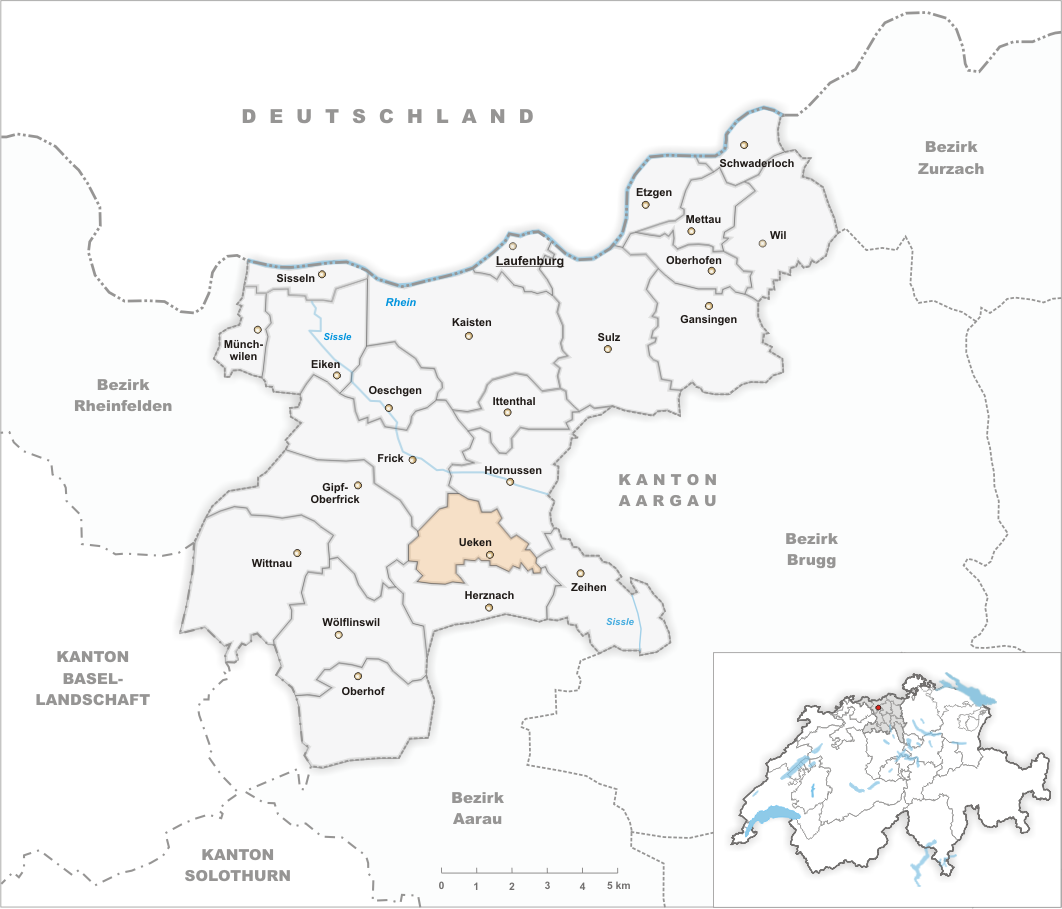 Municipality Ueken